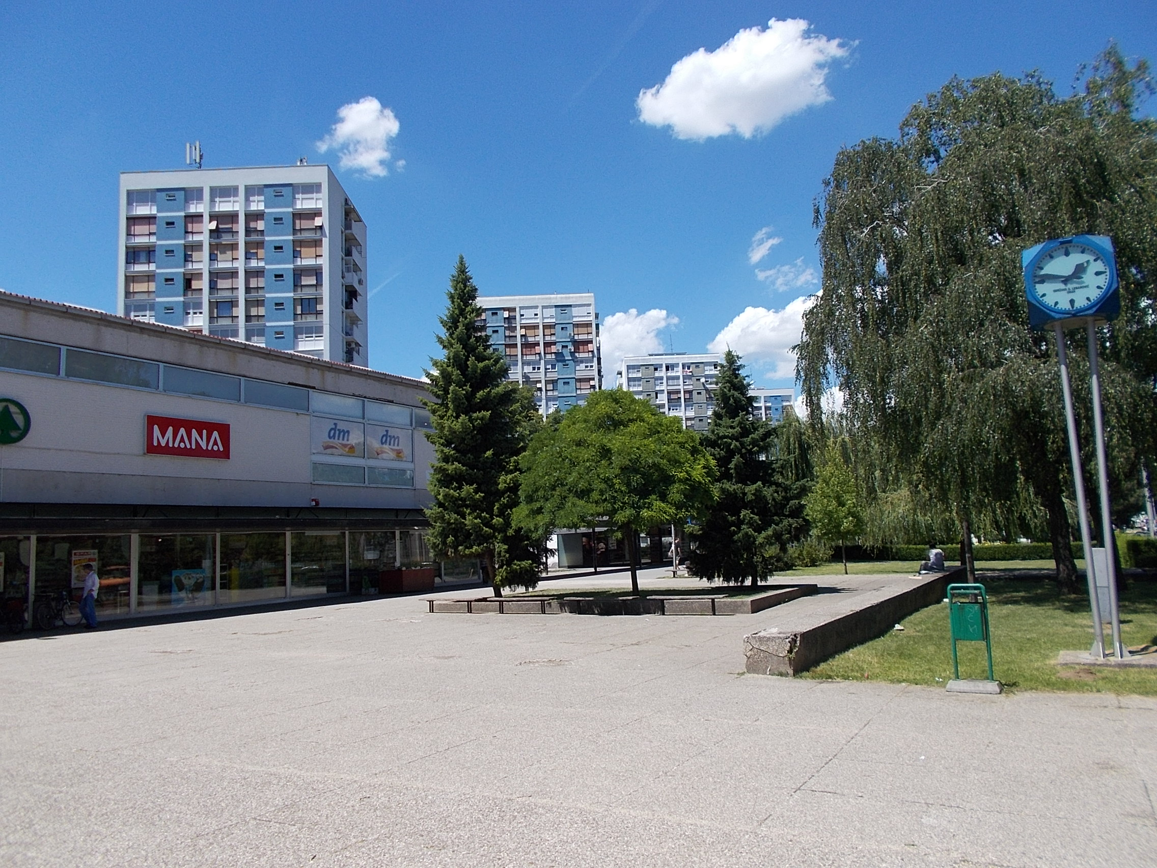 Residental buildings in Trnsko, Novi Zagreb.